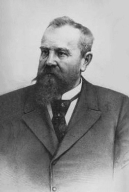 Austrian forensic pathologist Eduard Ritter von Hofmann (1837-1897)